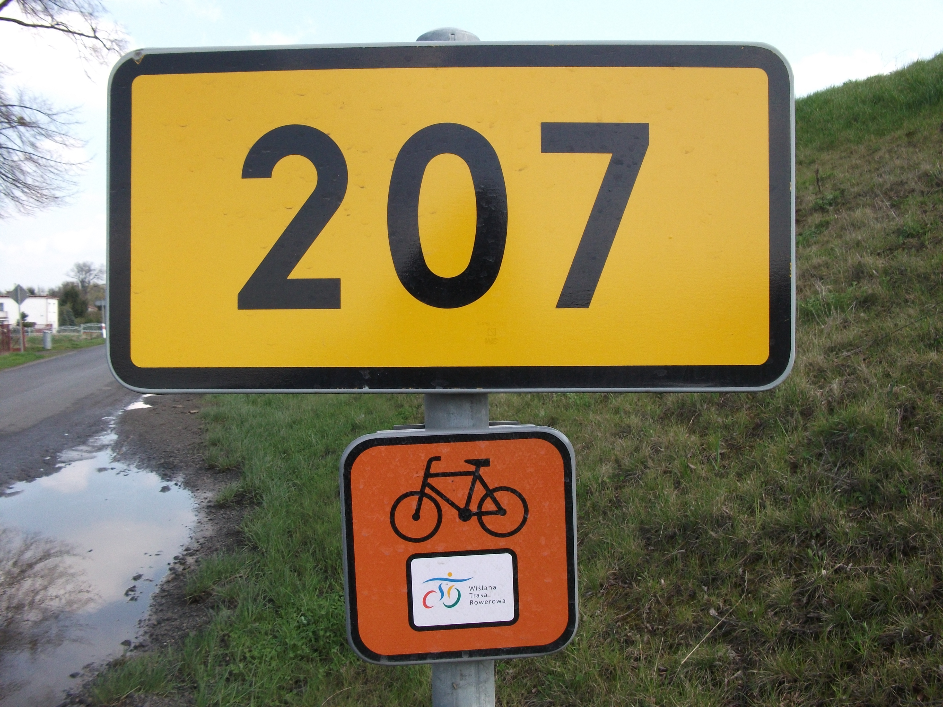 Provincial road No. 207